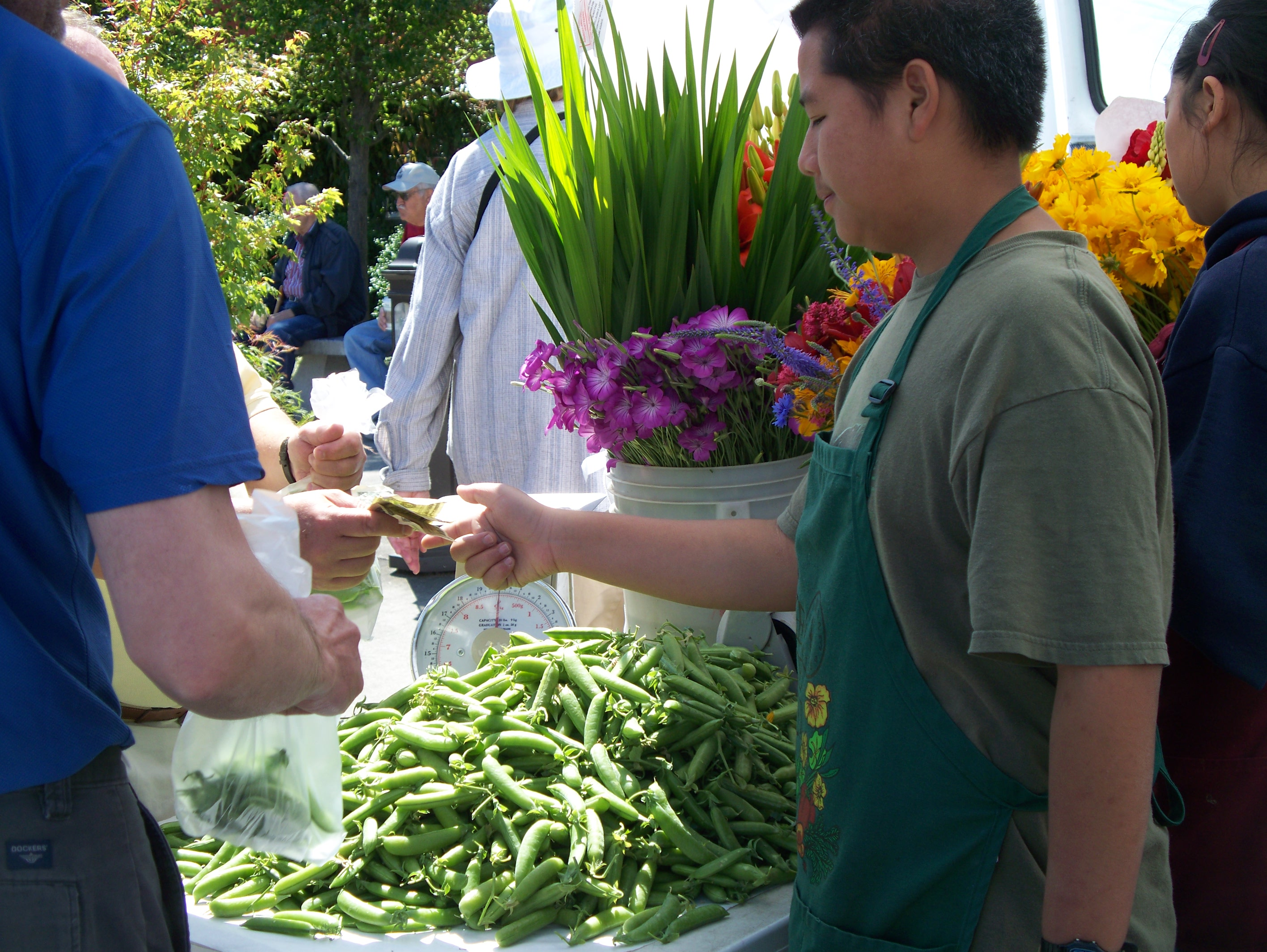 Transaction at a Farmers' Market in 2009.